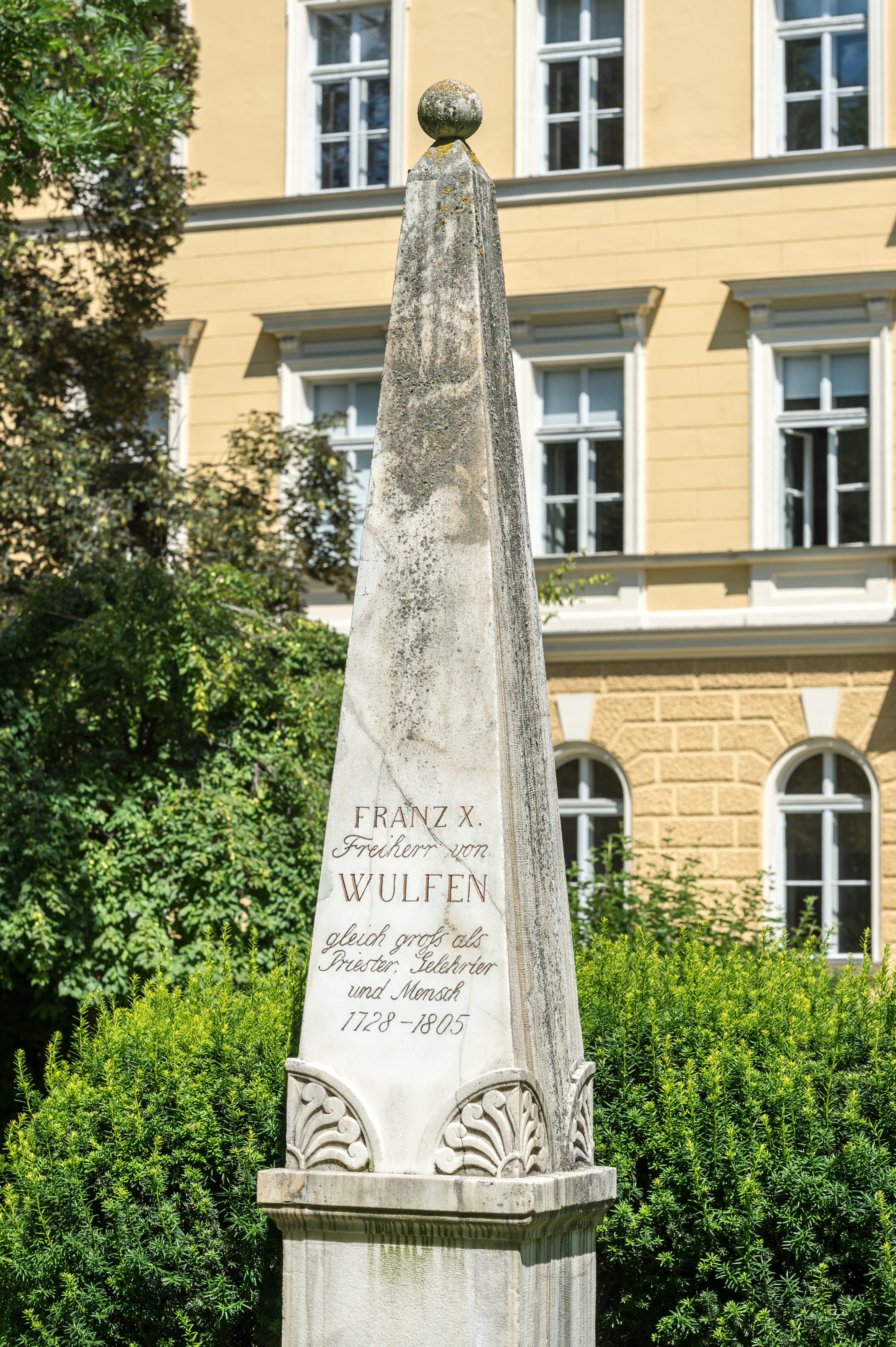 Franz Xaver Freiherr von Wulfen memorial on Voelkermarkter Ring #27, 6th district “Voelkermarkter Vorstadt”, municipality Klagenfurt on the Lake Woerth, Carinthia, Austria, EU